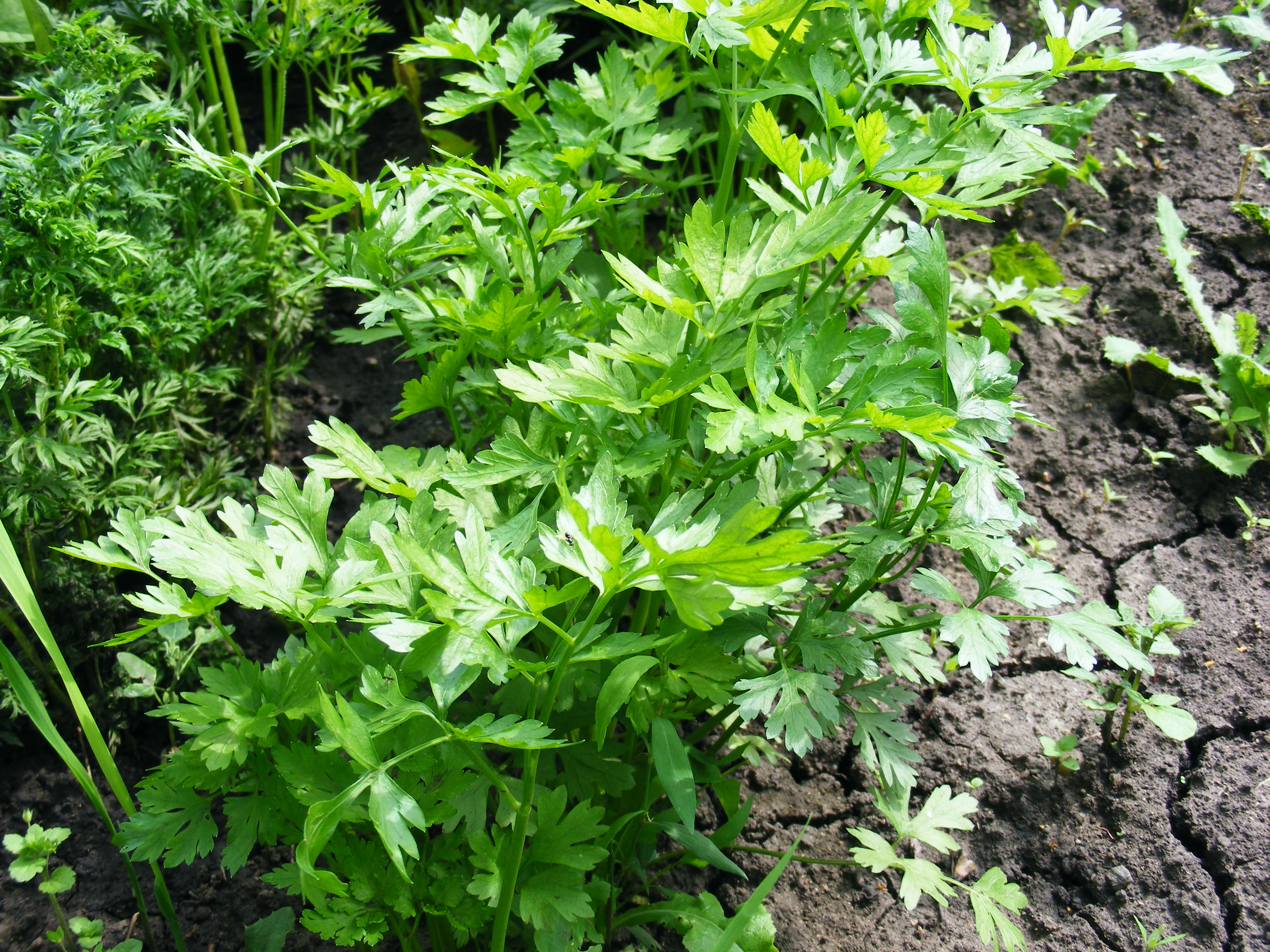 Apium graveolens